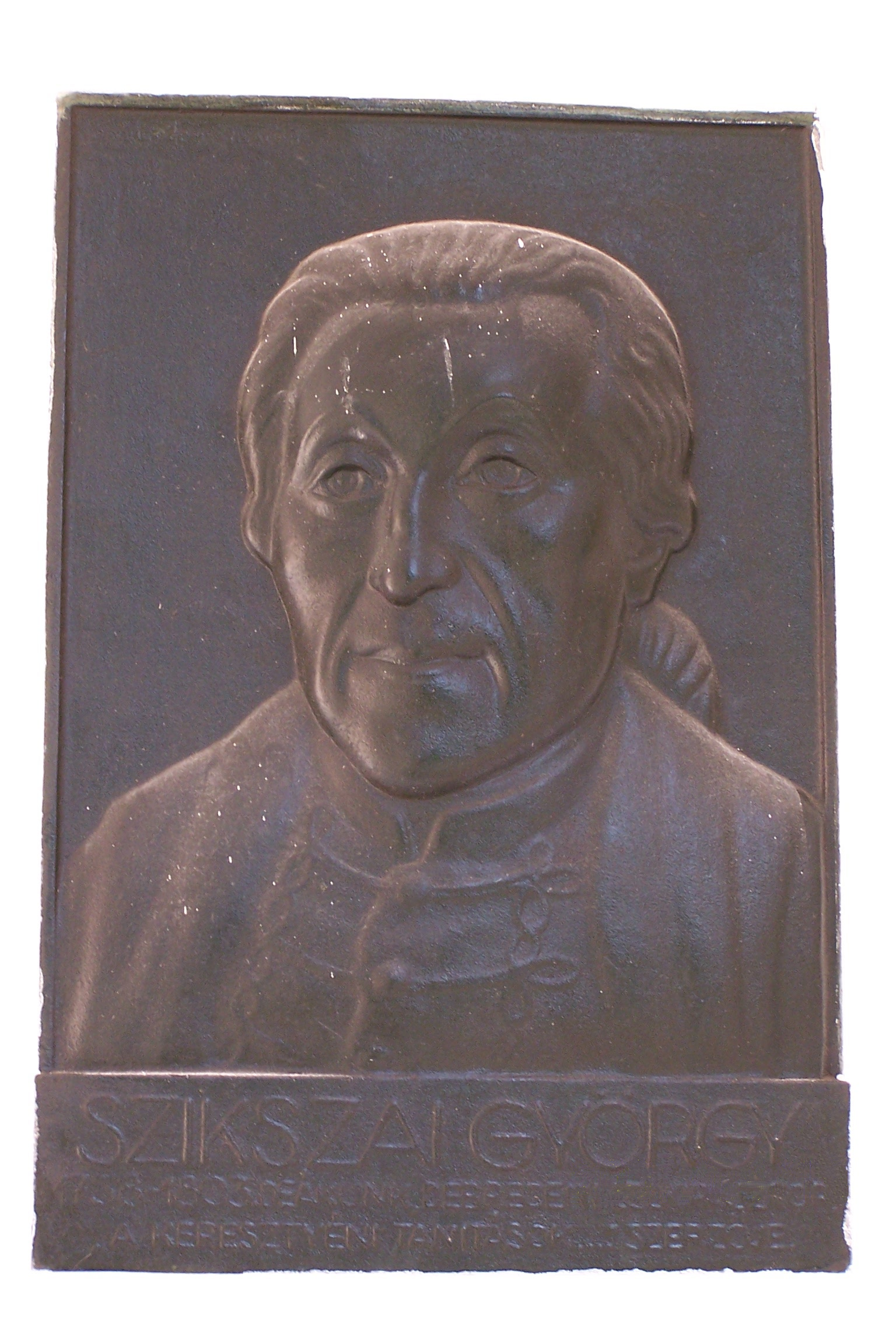 György Szikszai's portrait relief in the court of Calvinist College of Debrecen